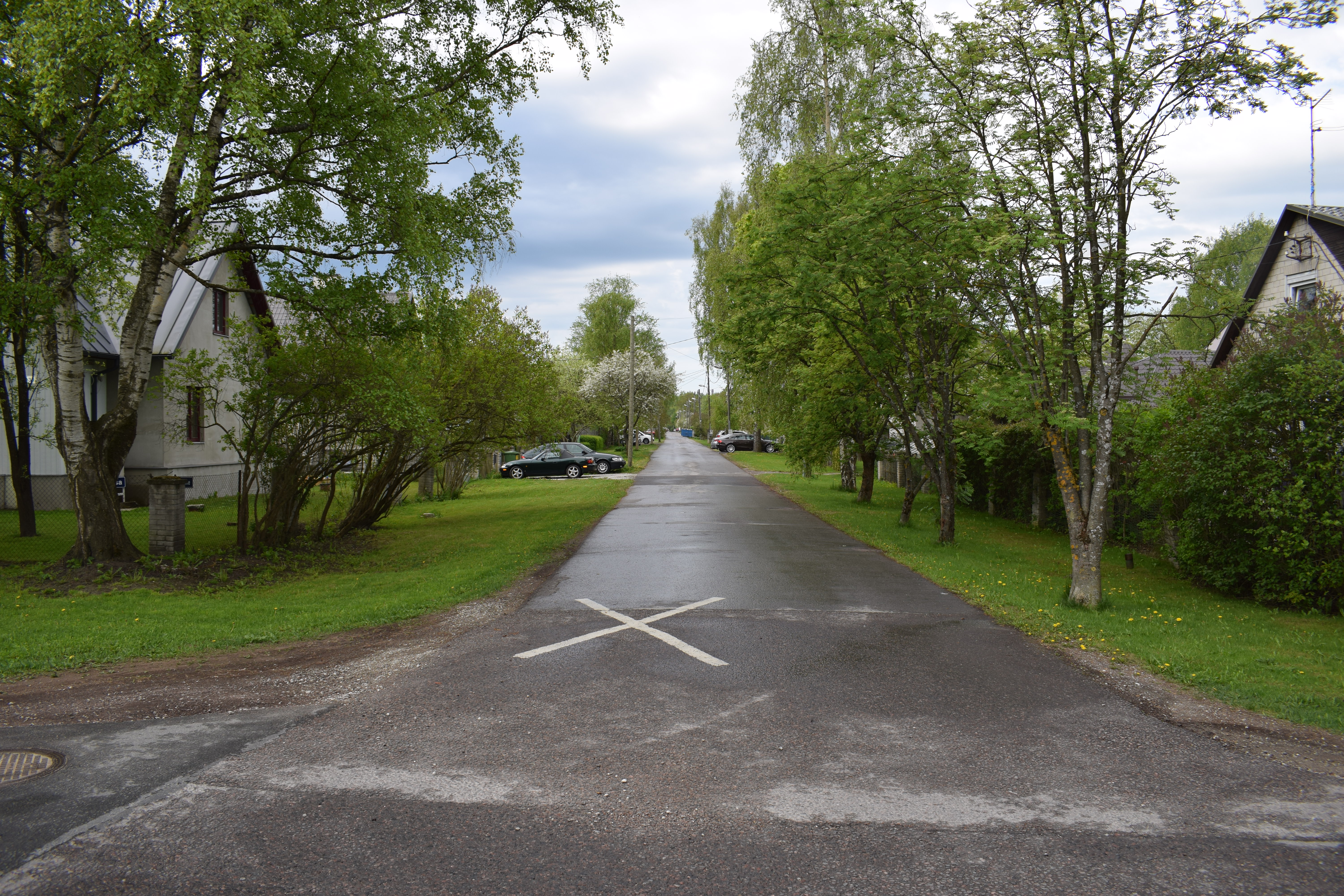 Rahe street